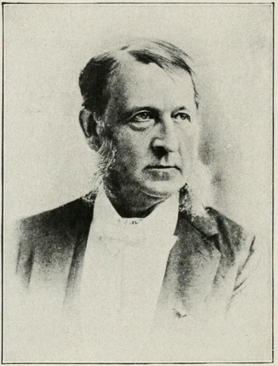 Head and shoulders portrait shot of Dr. James Edmund Garretson